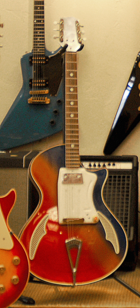 Wandre Blue Jean or Teenager, also nicknamed Tri-Lam[note 1] (1960s) Rumble Seat Music Vintage Guitars - Carmel, CA Notes ↑ The name Trilam is not by Wandrè, but it has been advertised on second-hand ads.(Ballestri 2014) References Ballestri, Marco (in italian) Wandrè. L'artista della chitarra elettrica, Modena: Anniversary Books ISBN: 978-88-96408-16-2. (See also excerpted photographs: Wandrè’s guitars.)